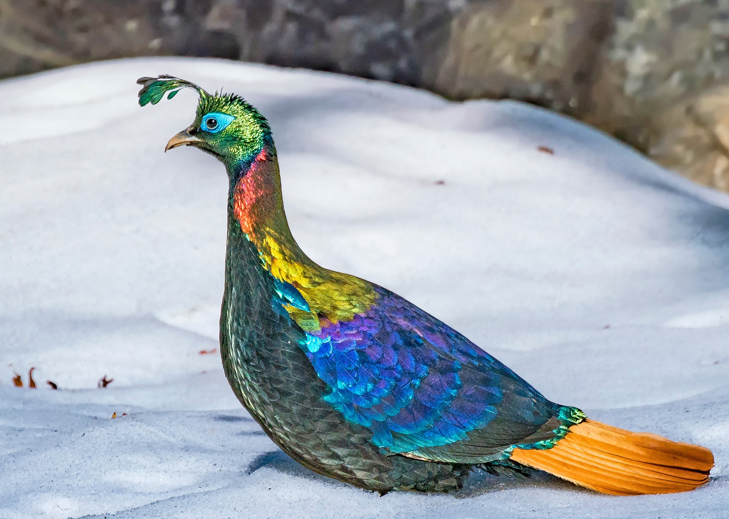 The Beautiful Himalayan Monal - Male on Snow. In Tungnath, Uttarakhand